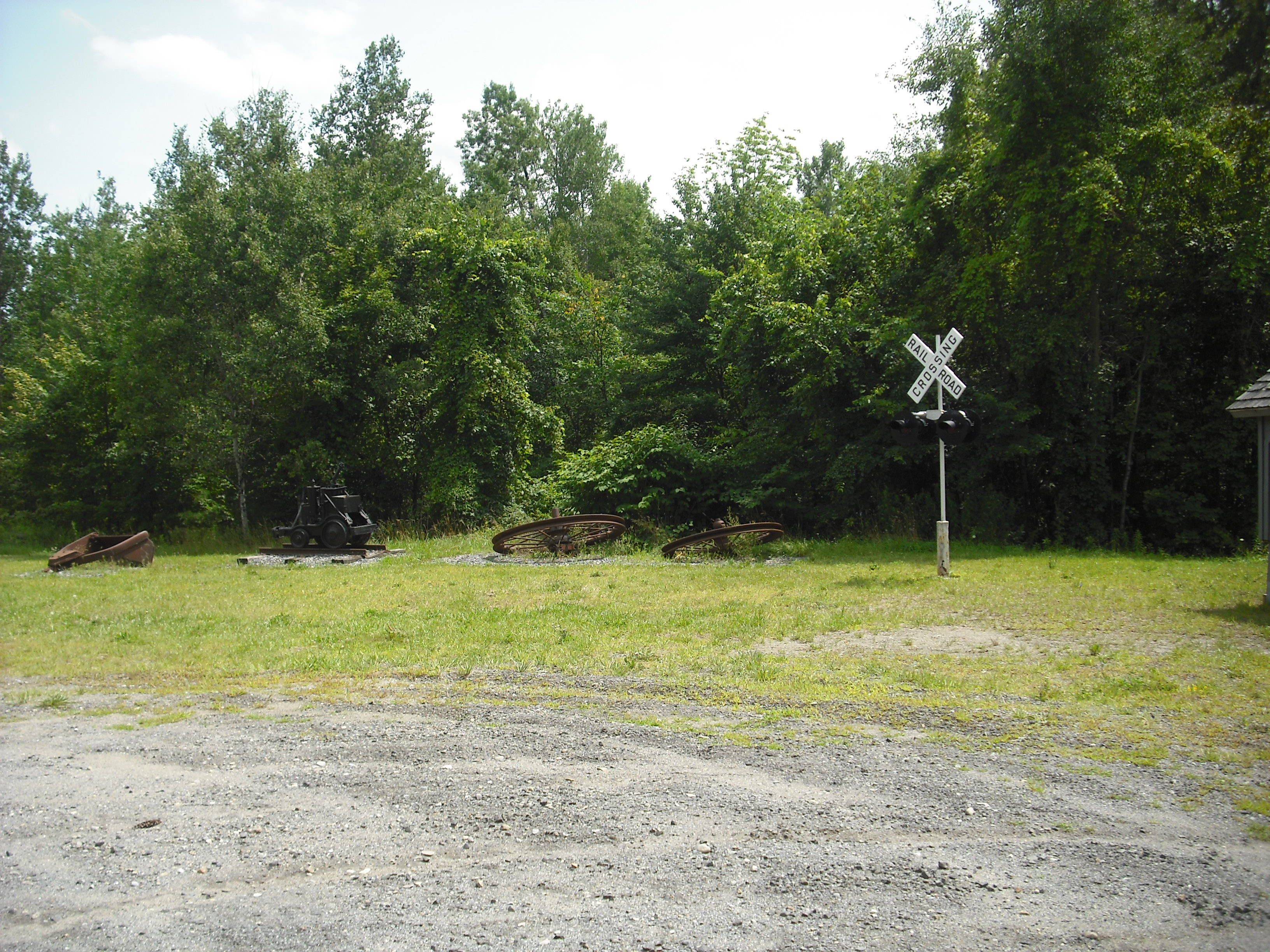 Central Powerhouse Powerhouse was demolished in 2001. This is what the site of the powerhouse looked like in 2014.